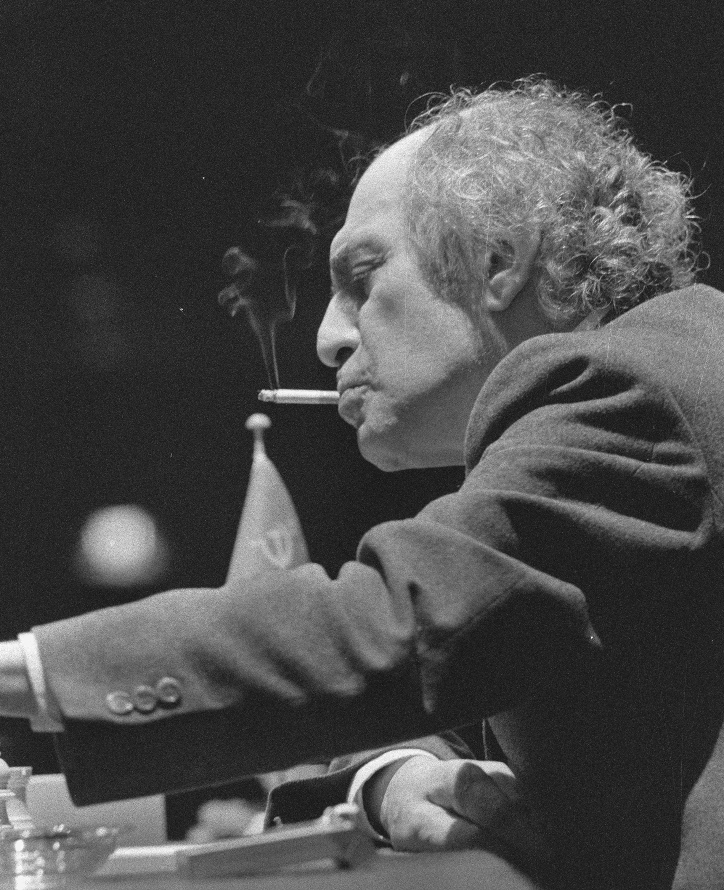 Schaaktweekamp Timman tegen Tal; Mikhail Tal